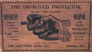 Advertisemnt for the Palm Protector pistol